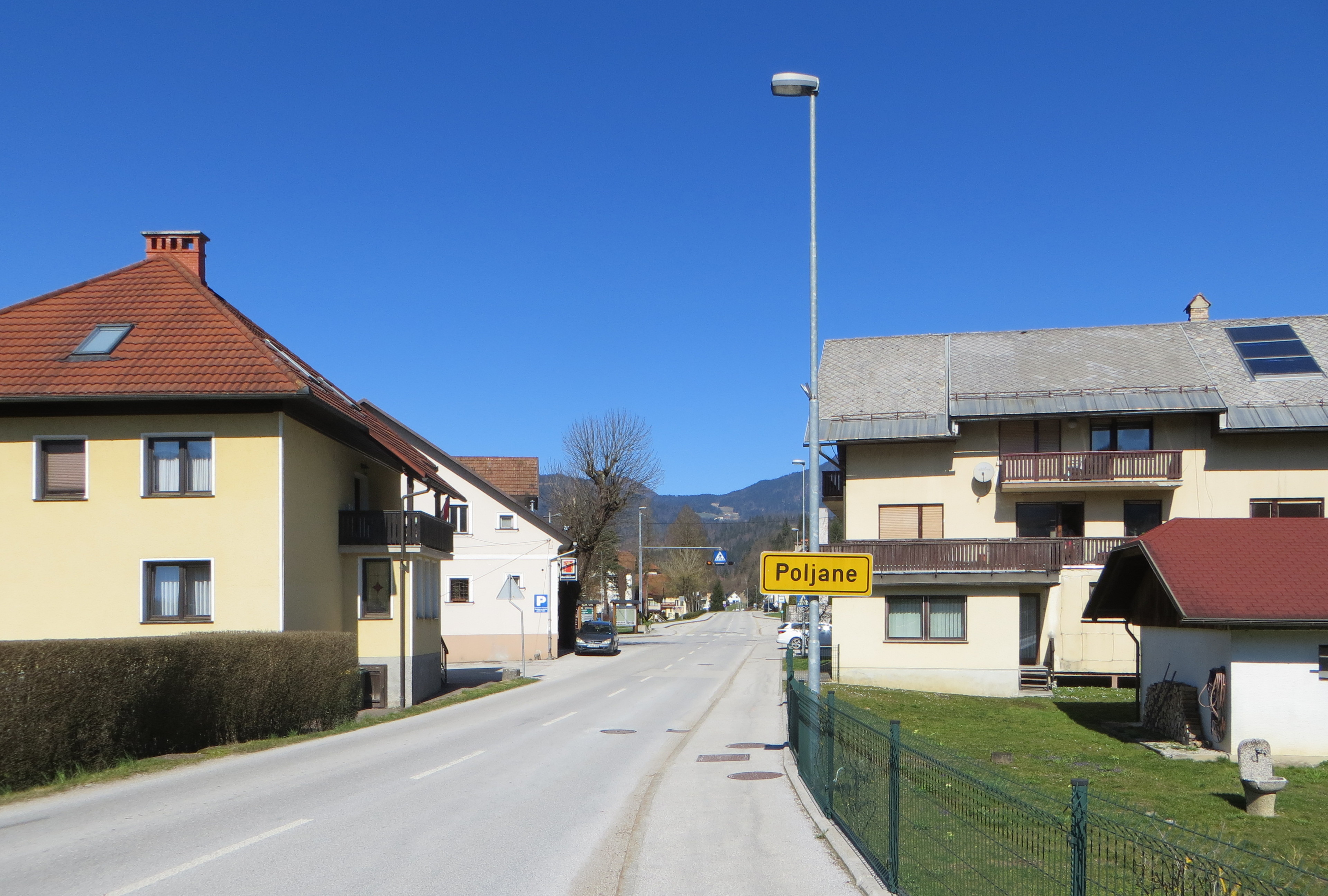 Poljane nad Škofjo Loko, Municipality of Gorenja Vas–Poljane, Slovenia